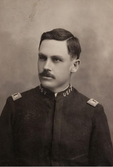 Photo - Captain James H. McClintock, B Troop Commander, 1st US Voluntary Cavalry Regiment "Rough Riders" while convalescing from wounds in his leg at the Battle of Las Guasimas, Cuba on 24 June 1898 during the Spanish-American War